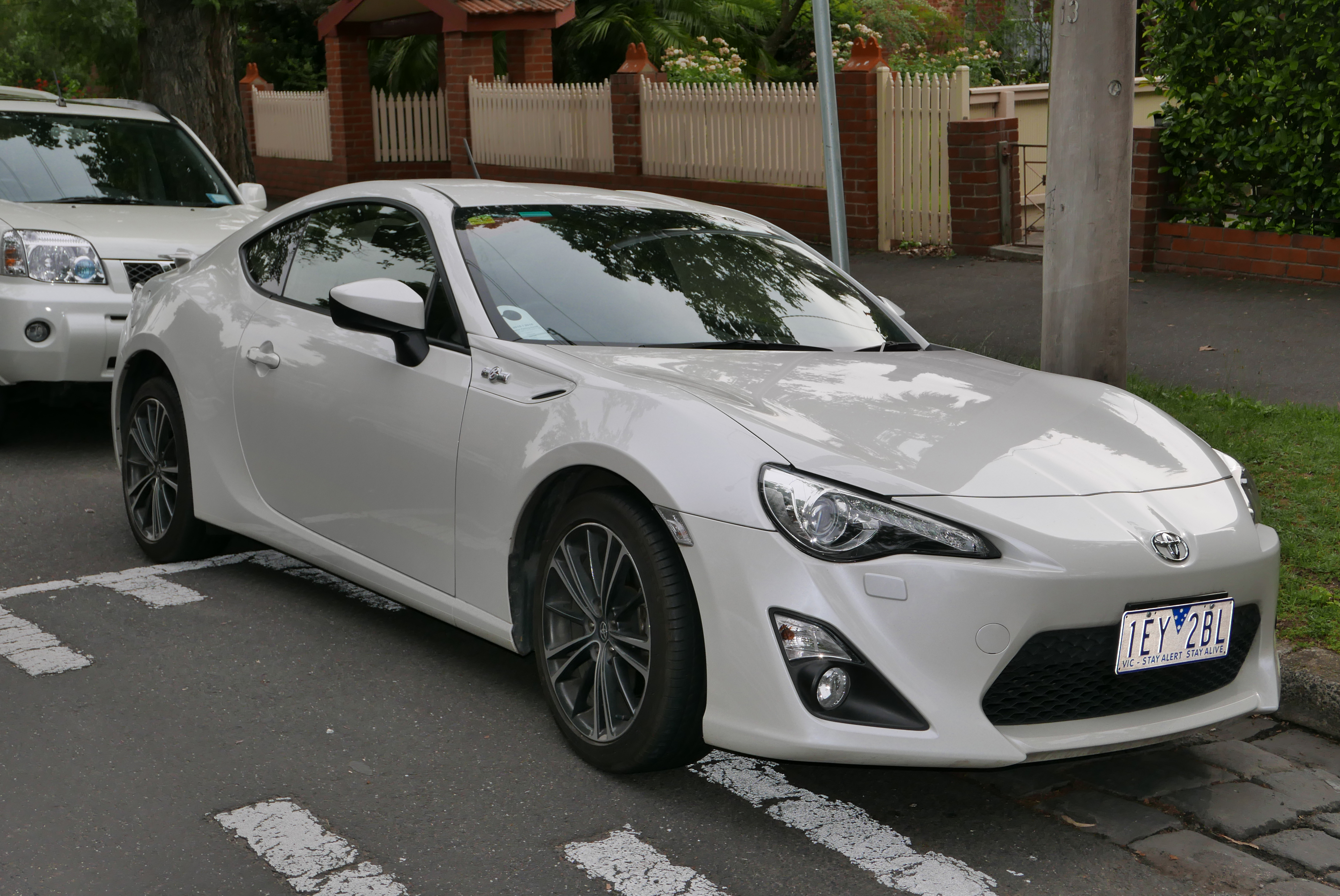 2013 Toyota 86 (ZN6 MY14) GTS coupe. Photographed in Flemington, Victoria, Australia. Vehicle registration enquiry resultsJurisdictionVictoriaRegistration1EY2BLChassis codeJF1ZN6K72EG020011Engine codeFA20H886654Compliance date2013-11Year of manufacture2013